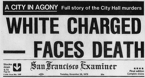 Upper part of the cover of The San Francisco Examiner on November 28, 1978.